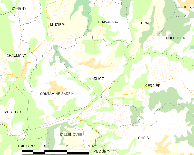 Map of French municipality Marlioz